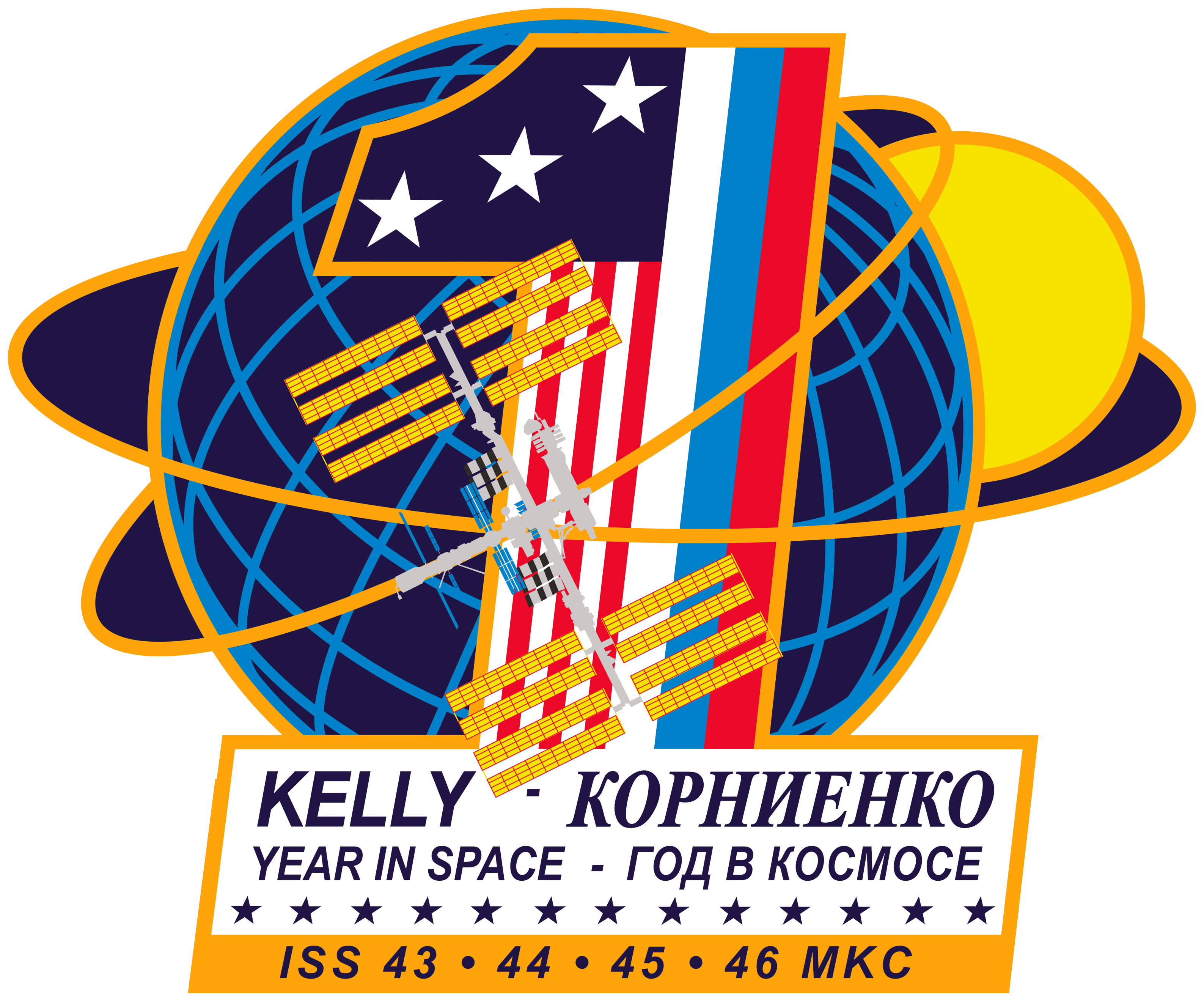 Patch for yearlong mission. American Scott Kelly and Russian Mikhail Kornienko are slated to stay a year on the International Space Station. This will be the longest anyone has stayed on the ISS, the longest an American has been in space and the first time someone has been in space this long since 1990s. This mission will last during Expedition 43, 44, 45 and 46. This patch represents the historic one-year expedition to the International Space Station, spanning Increments 43 through 46. The ISS, an orbiting laboratory above the Earth, provides a unique environment in which to study the effects of long-duration spaceflight on the human body. This one-year mission will pave the way for future pursuits in space exploration of humankind on longer journeys to farther destinations. The large number 1 on the patch is emblazoned with U.S. and Russian Flags depicting the duration of the flight and the countries of its crew members. The last names of the one-year crew, ISS Commander Scott Kelly and Flight Engineer Mikhail Kornienko, appear under the space station symbol above 13 stars, which represent the astronauts and cosmonauts who will be onboard and working together in harmony during this year-long mission. Earth and the sun are depicted with two orbital planes, symbolizing the ISS orbiting Earth while the Earth is orbiting the sun during the year-long mission.